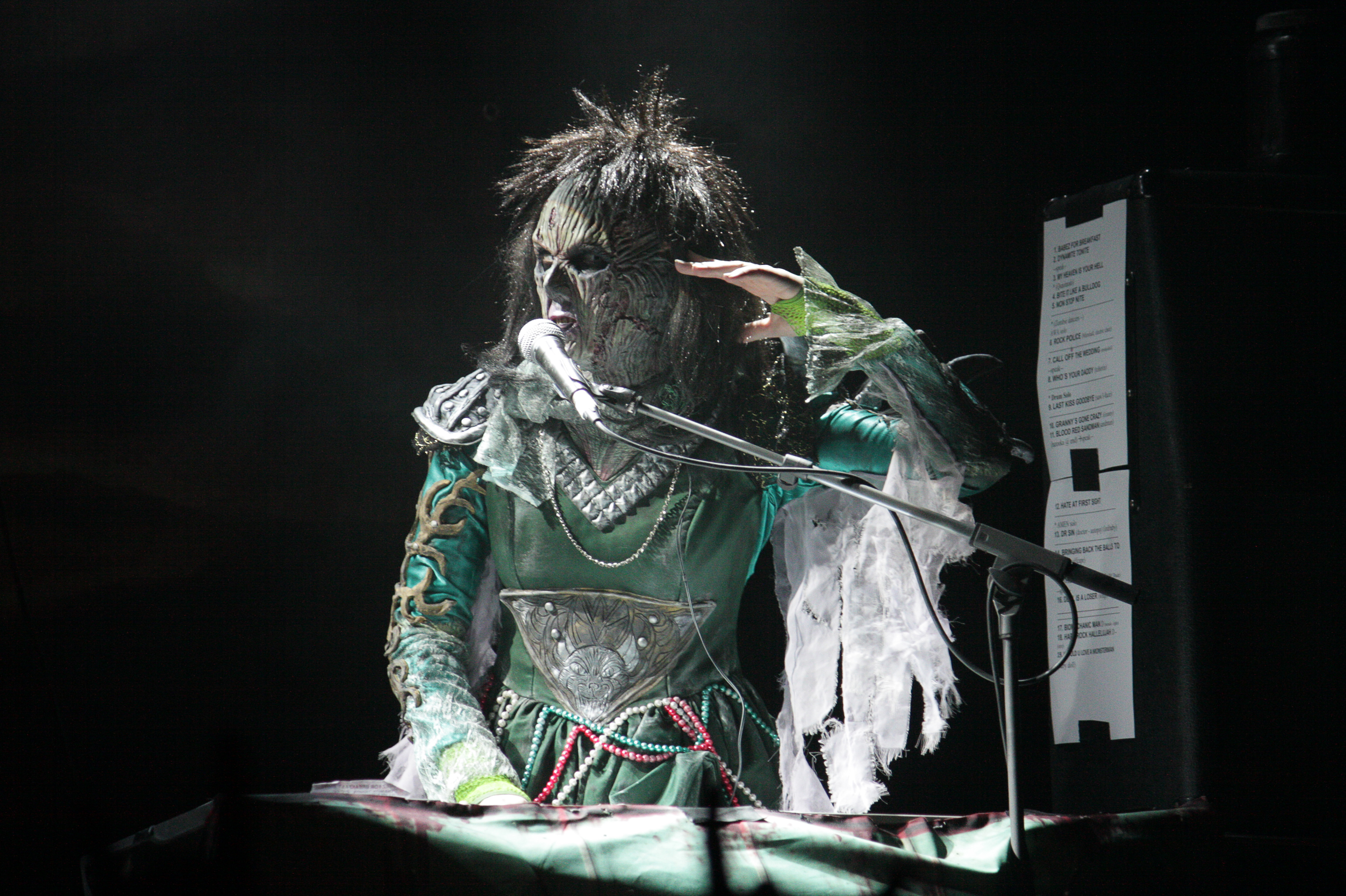 Lordi in concert in Salamandra, Barcelona, Spain.